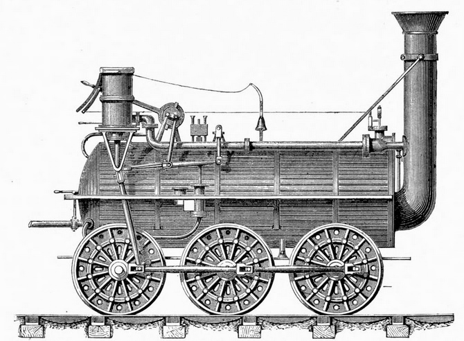 The Royal George steam locomotive, used on the Stockton and Darlington Railway. From The Engineer, 10 October 1879, used by permission.